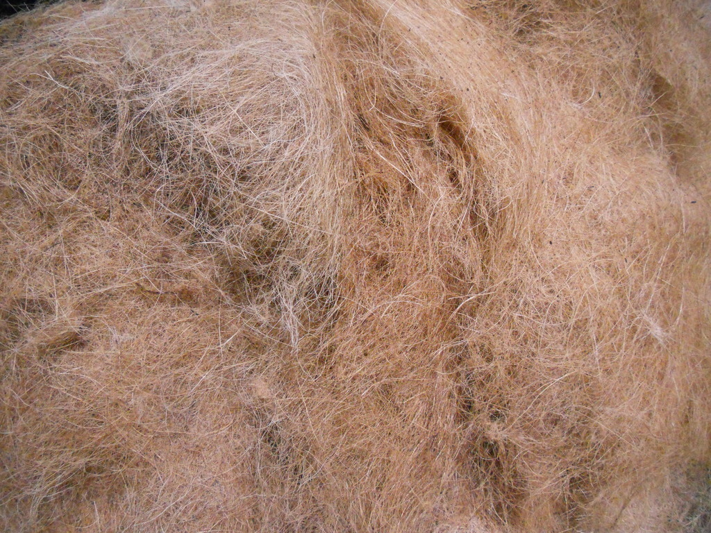 Coir fibers This media file is uploaded with India loves Wikipedia event.